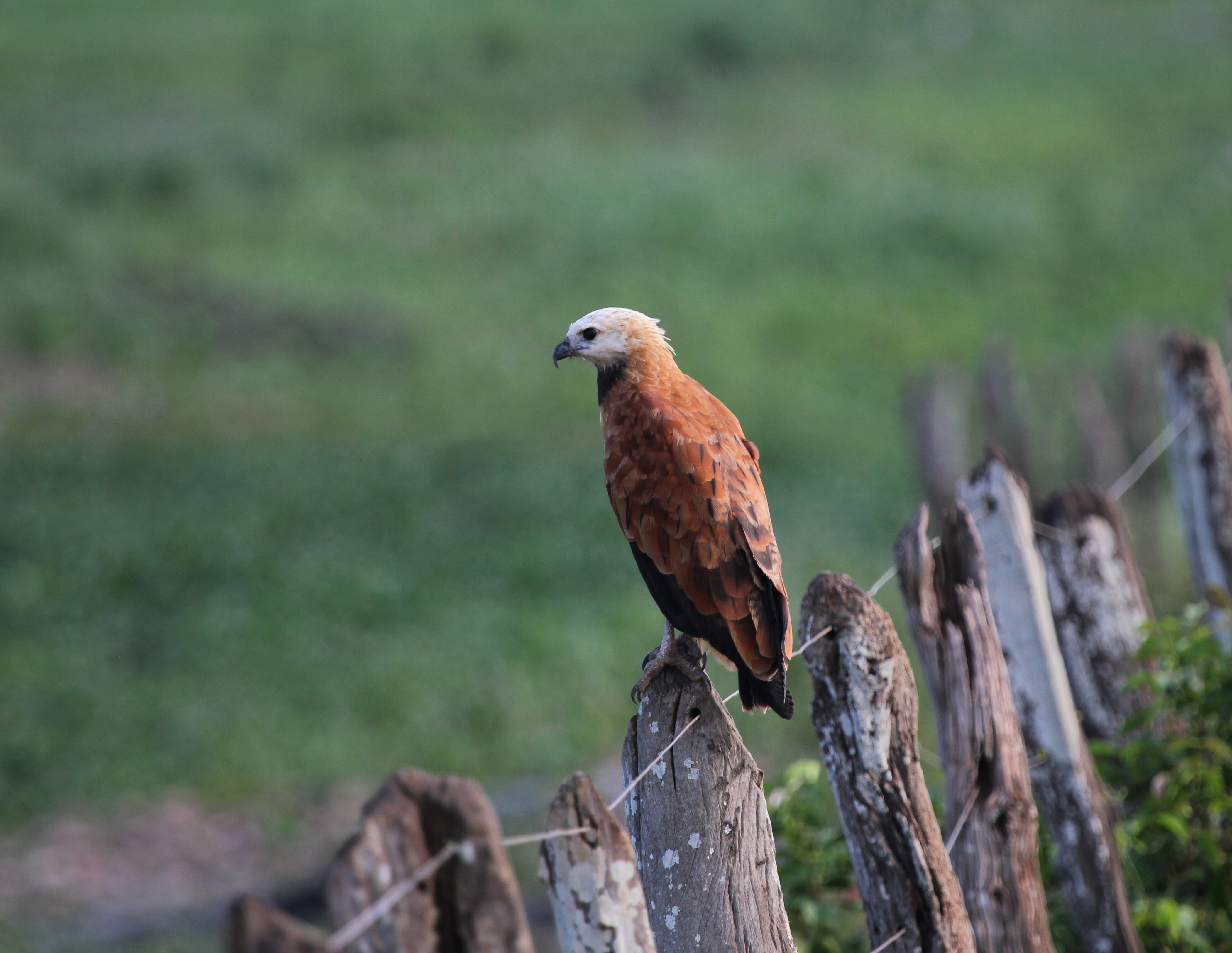 Black-collared Hawk (Busarellus nigricollis) near the Transpantaneira in the Pantanal, Brazil